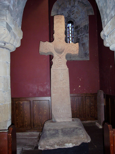 The Dupplin Cross, St Serfs Church, Dunning. Created during or shortly after the reign of King Custantin son of Fergus (died 820).